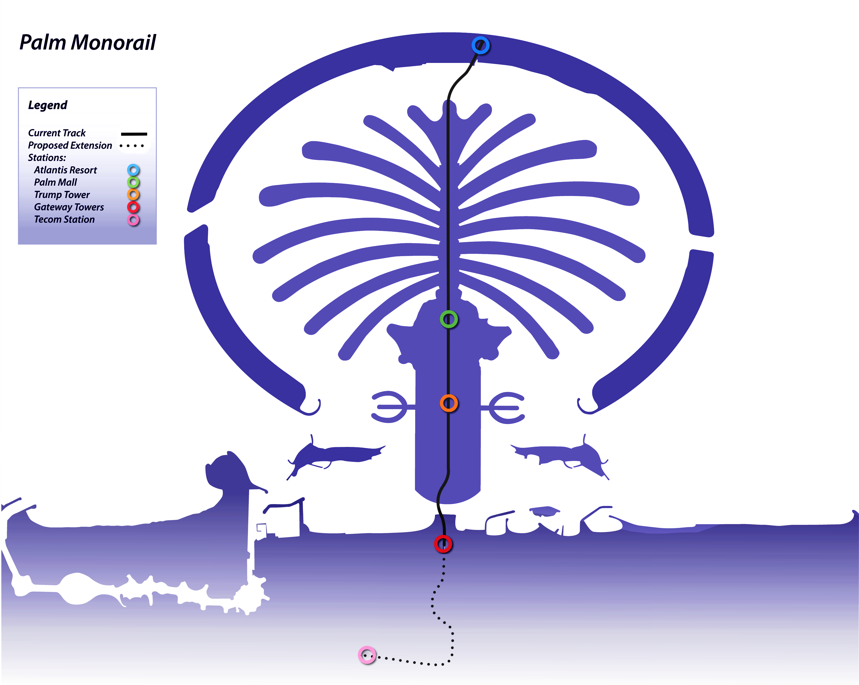 Plan view of Palm Jumeirah Monorail including proposed extension.